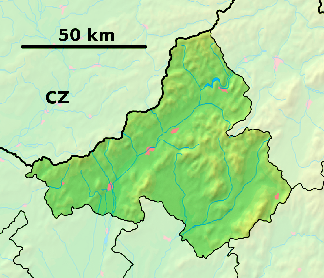 Background map of the Trenčín Region, Slovakia, ready for the Geobox template, calibrated at Template:Geobox locator Trenčín Region Outline map of the Trenčín Region, Slovakia, ready for the Geobox template, calibrated at Template:Geobox locator Trenčín Region